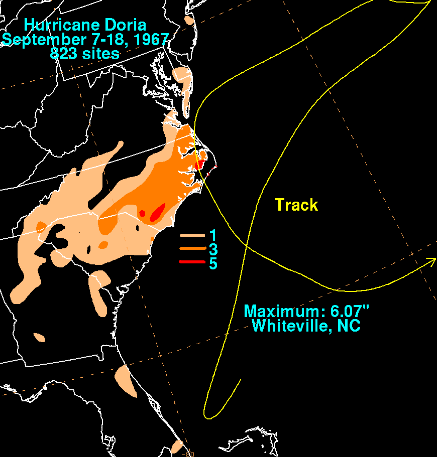 Storm total rainfall map of Hurricane Doria during September 1967.